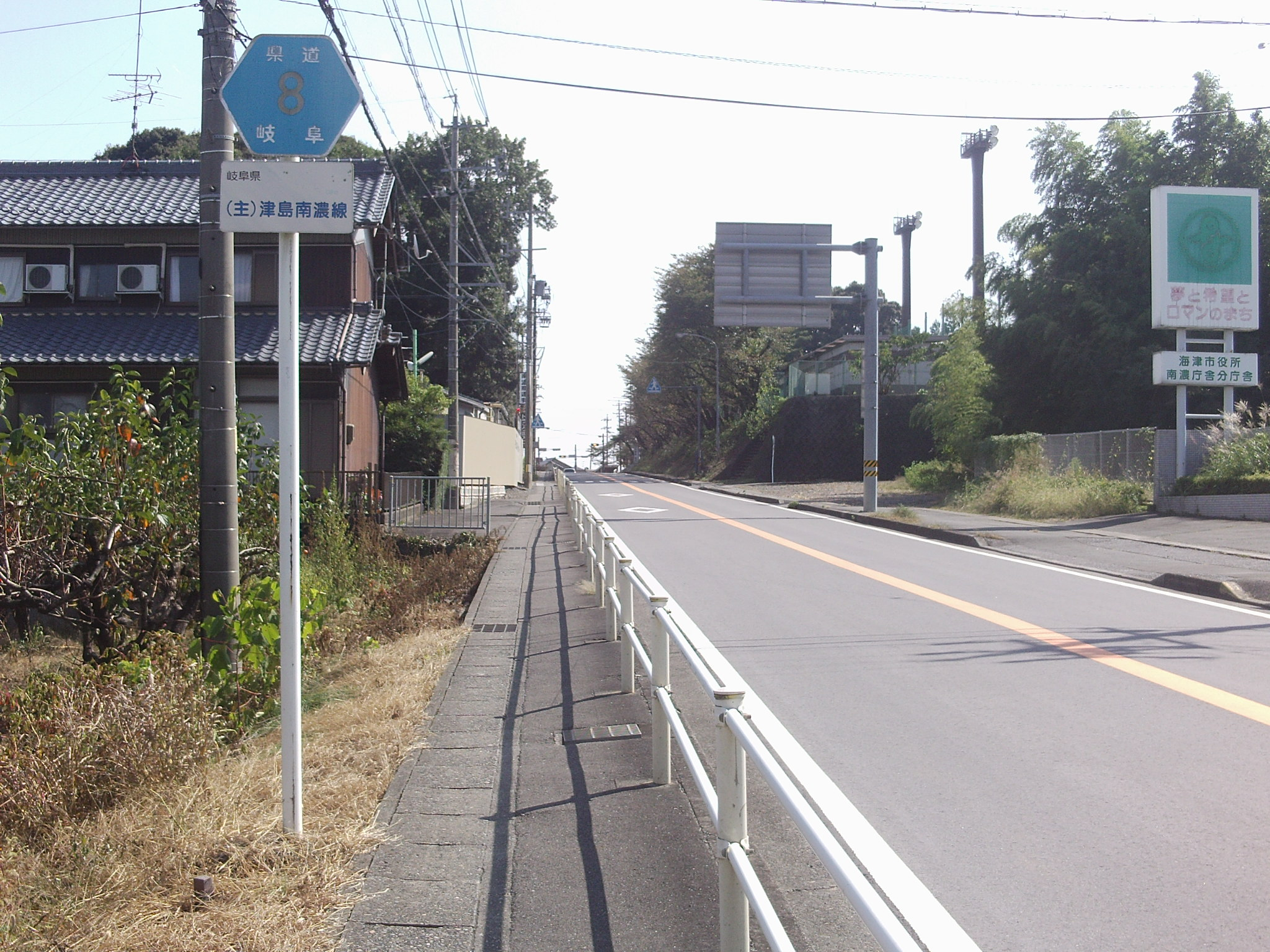 The Gifu Prefectural Road Route 8 in Nannocho Komano, Kaizu City